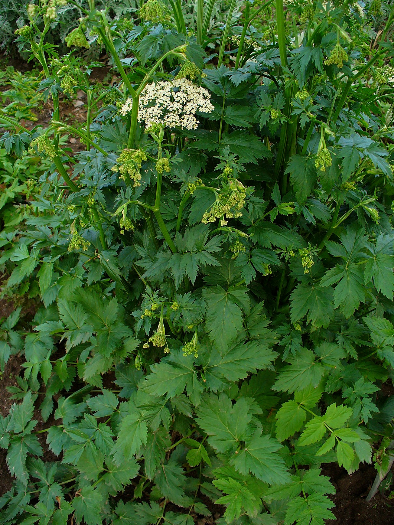 Pimpinella major var. major, Greater Burnet-saxifrage, habitus. Stutensee-Staffort, Germany.